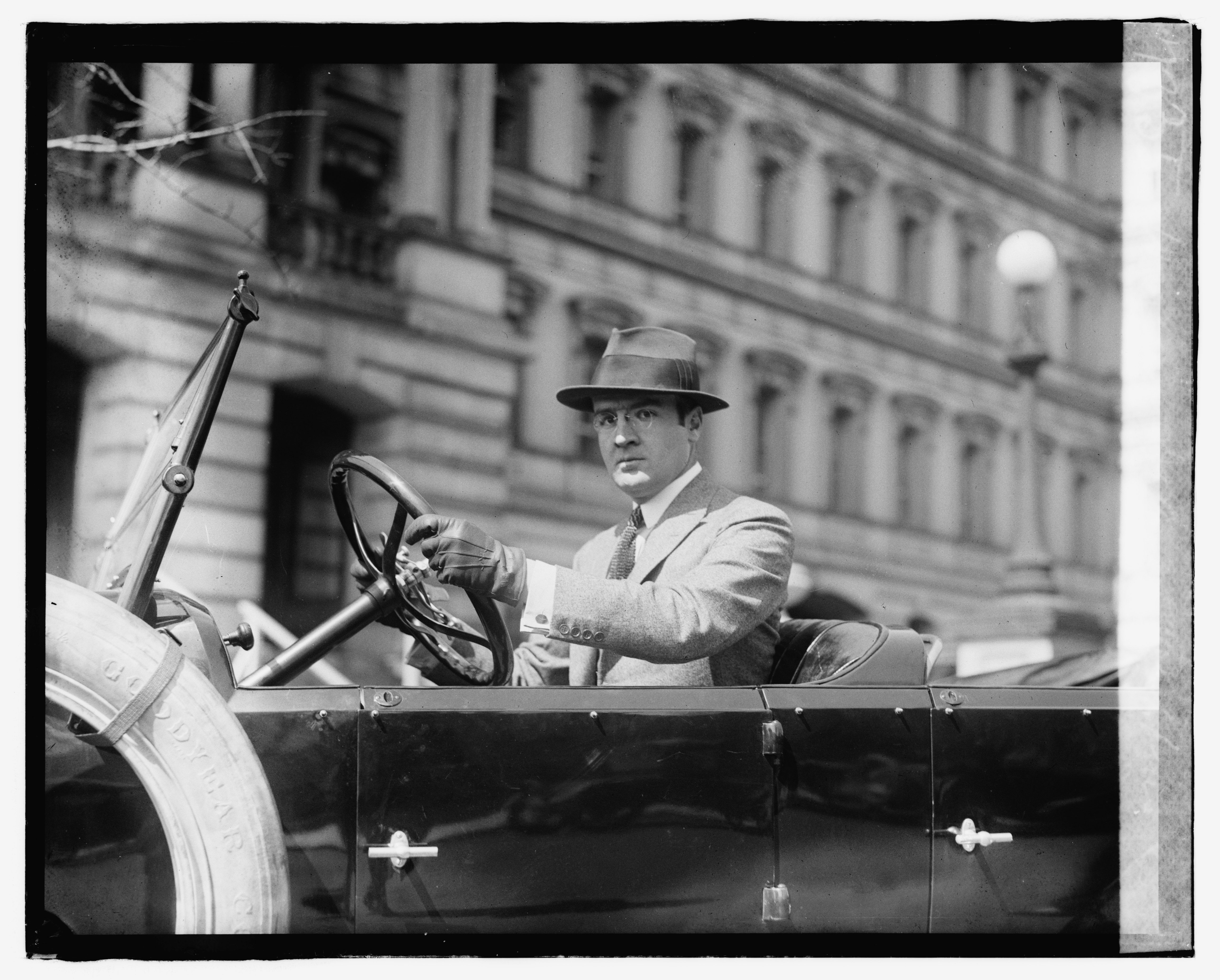 Title: Warren Delano Robbins Abstract/medium: 1 negative : glass ; 4 x 5 in. or smaller